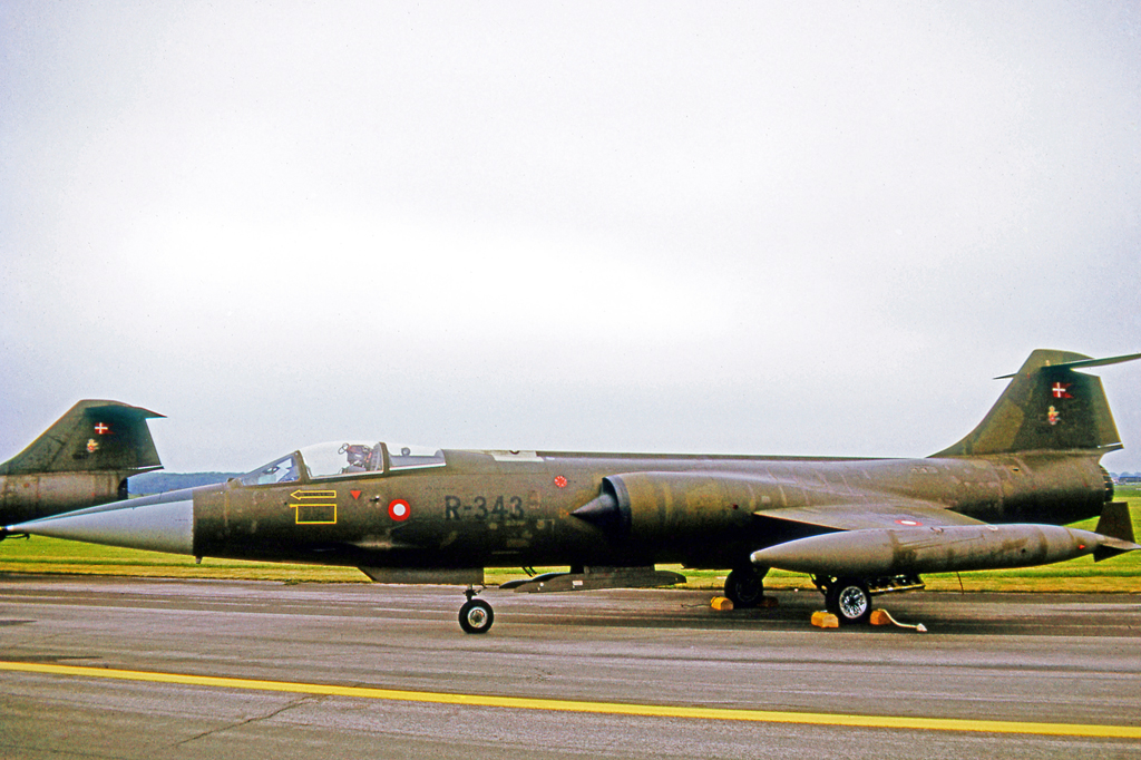 Lockheed F-104G Starfighter R-343 of 726 ESK Royal Danish Air Force at RAF Mildenhall England in 1971